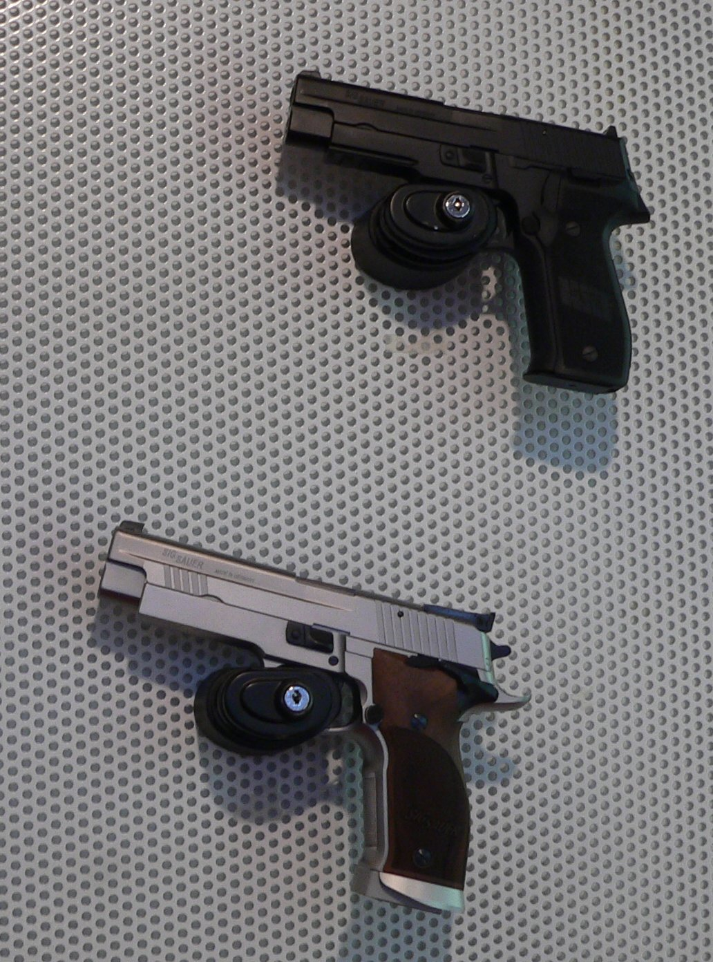 SIG 226 (standard on top, IPSC version P-226 X-FIVE down)